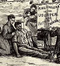 1849 Poster of Cholera Epidemic